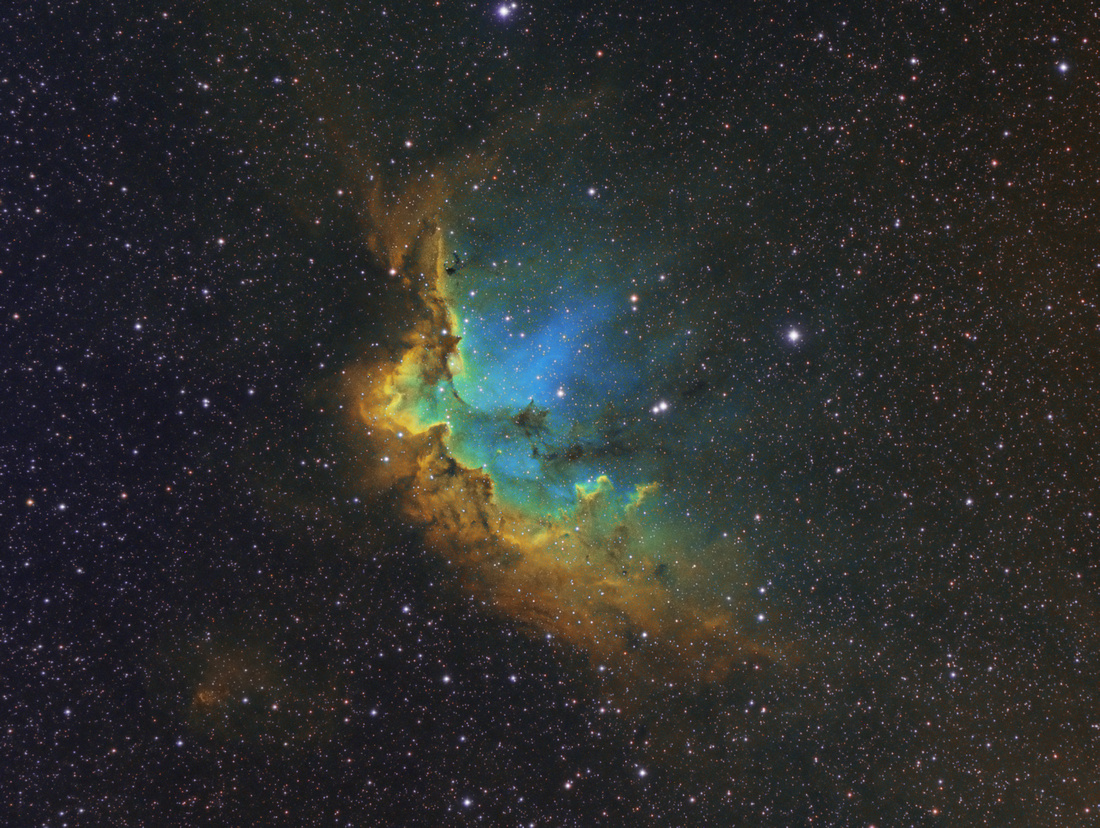 Sh2-142 NGC7380 in Hubble Palette Ha/OIII/SII with amateur equipment